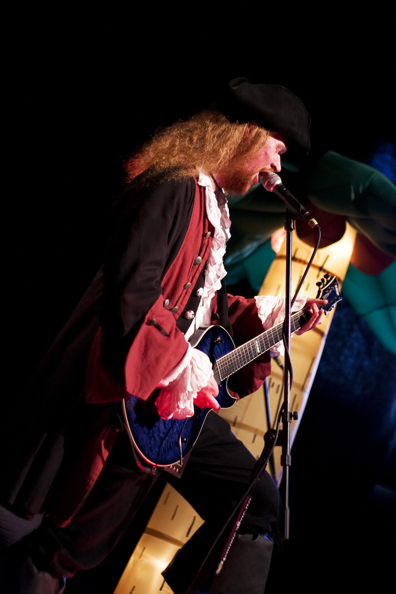 Commodore Redrum, guitarist of the metal band Swashbuckle, at Paganfest America 2009 in Seattle, WA.